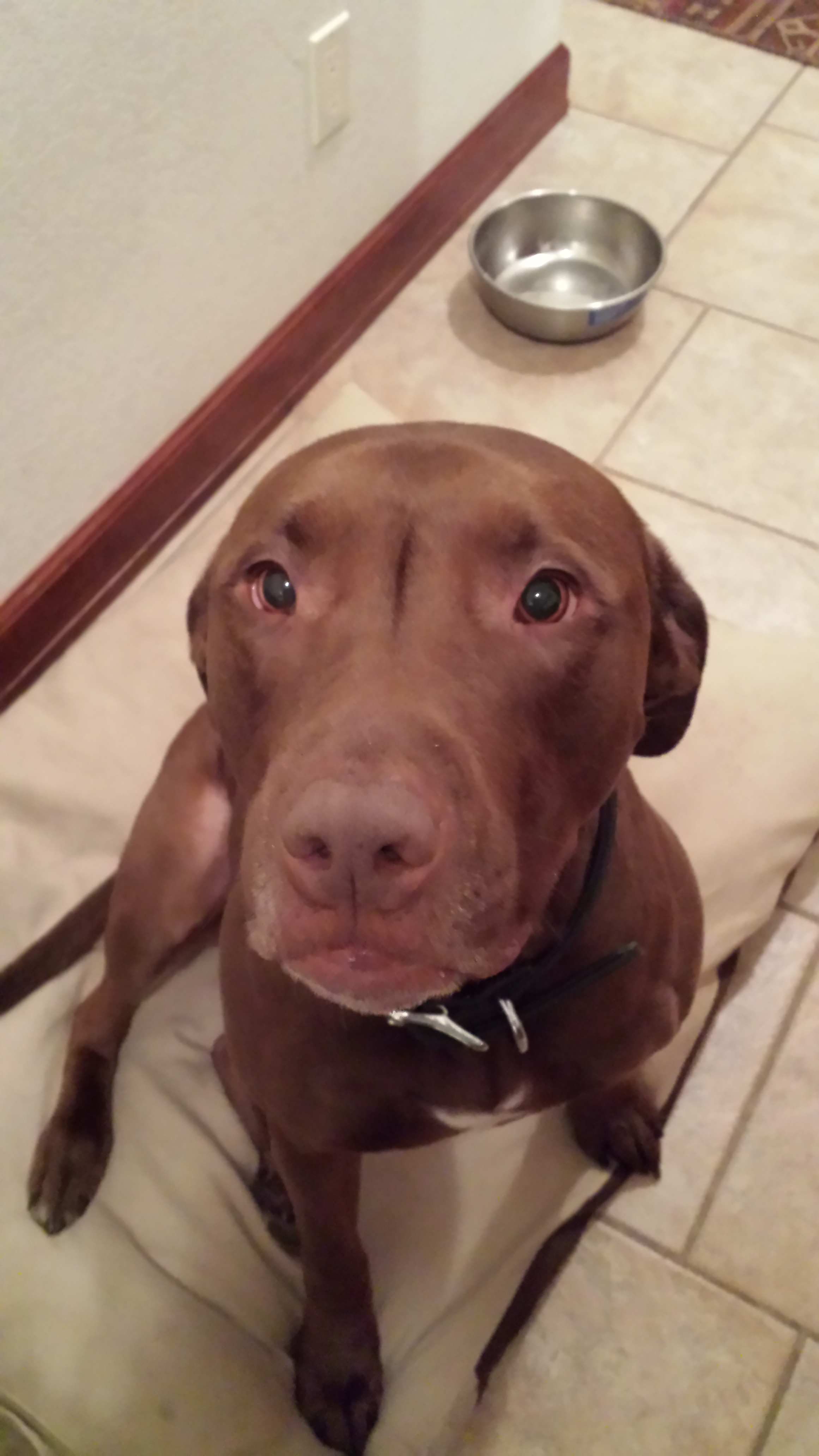 A pit bull/chocolate lab mix